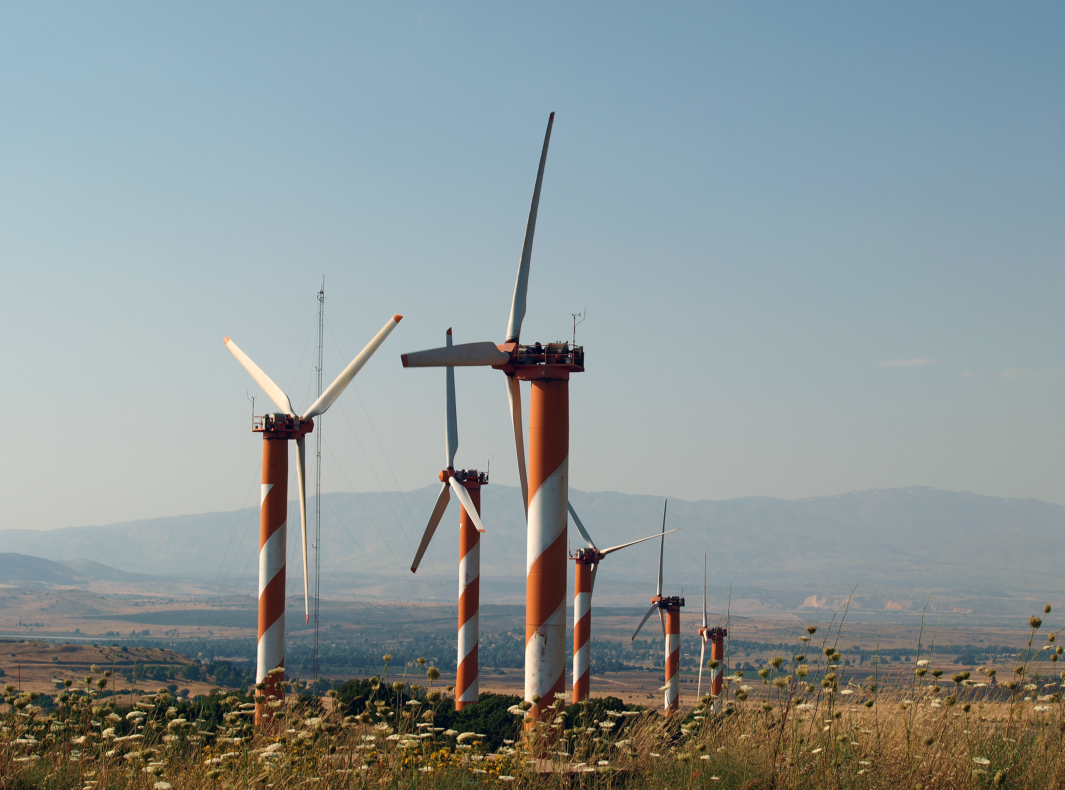 Bnei Rasan (wind farm)